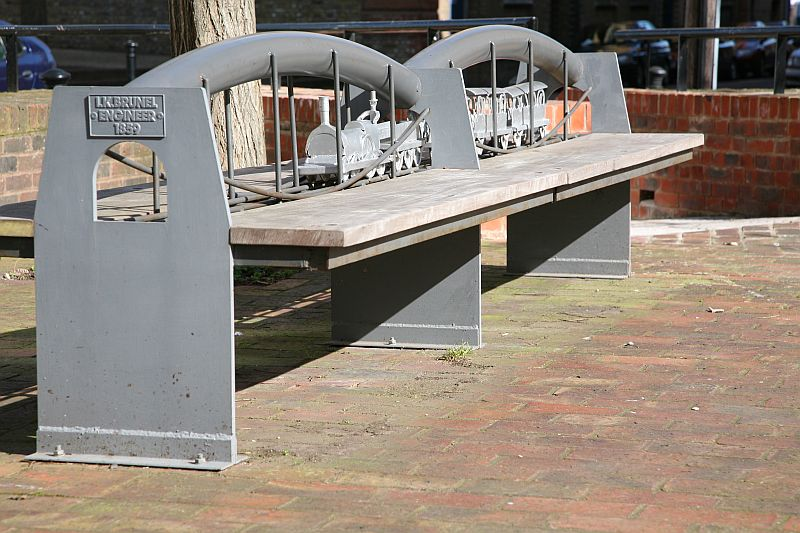 Model of the Royal Albert Bridge at Saltash as a bench seat in the grounds of the Brunel Museum, Rotherhithe, London